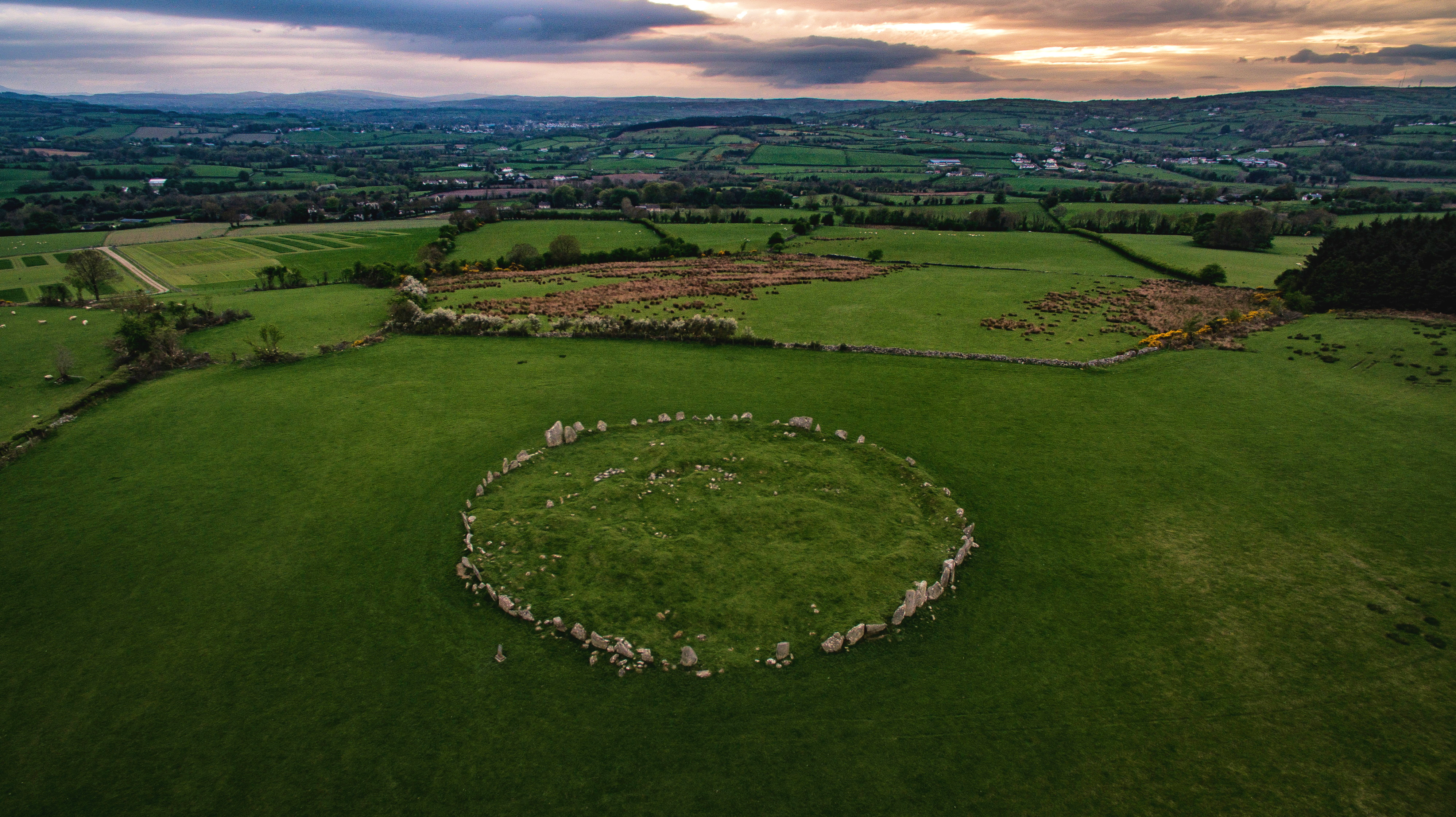 Beltony stone circle at sunset